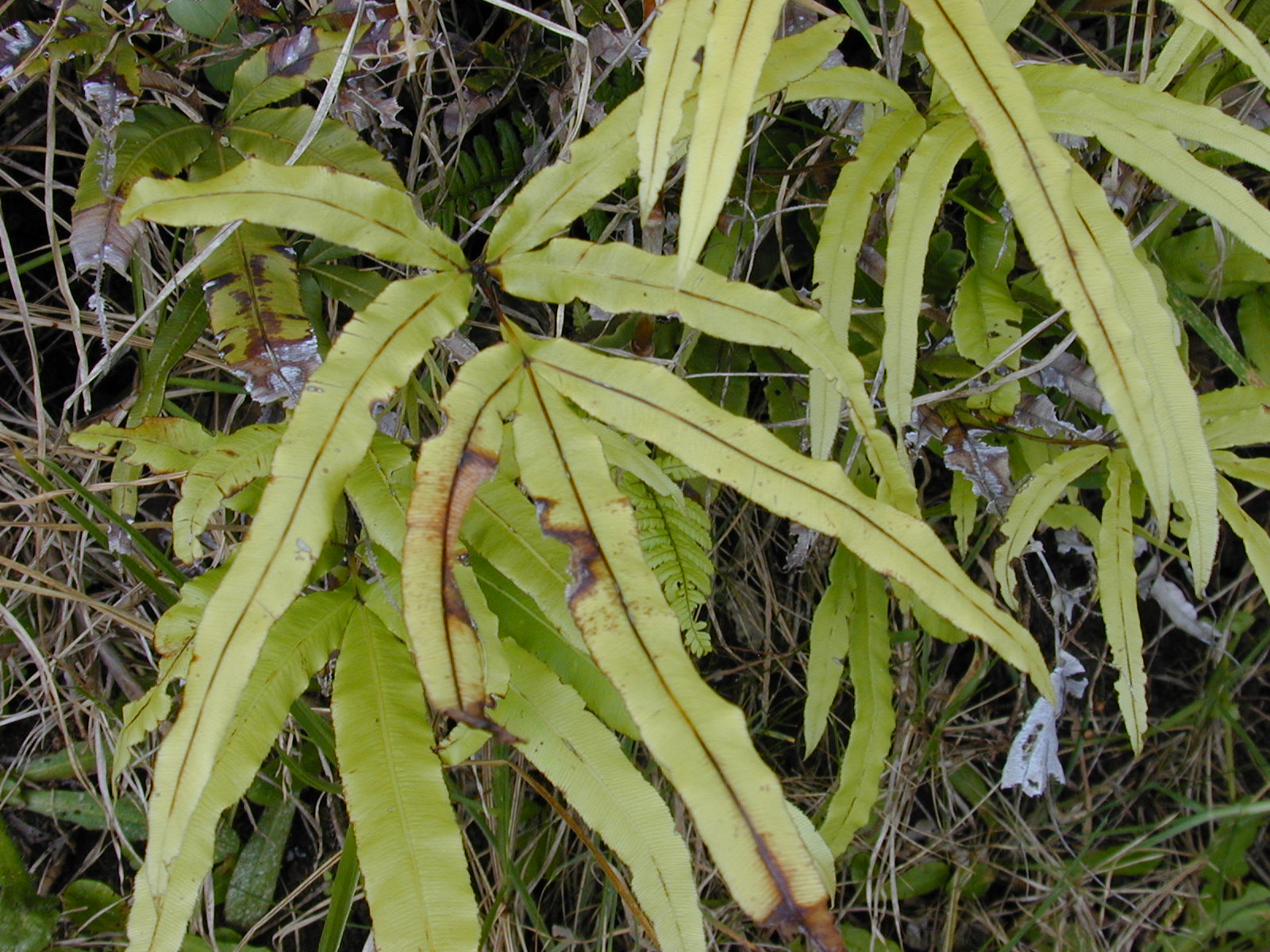 Pteris cretica (habit). Location: Maui, Polipoli